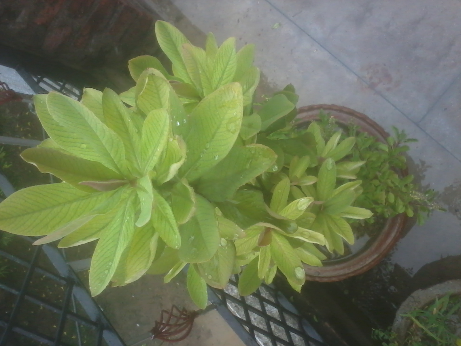 Images OF Nature